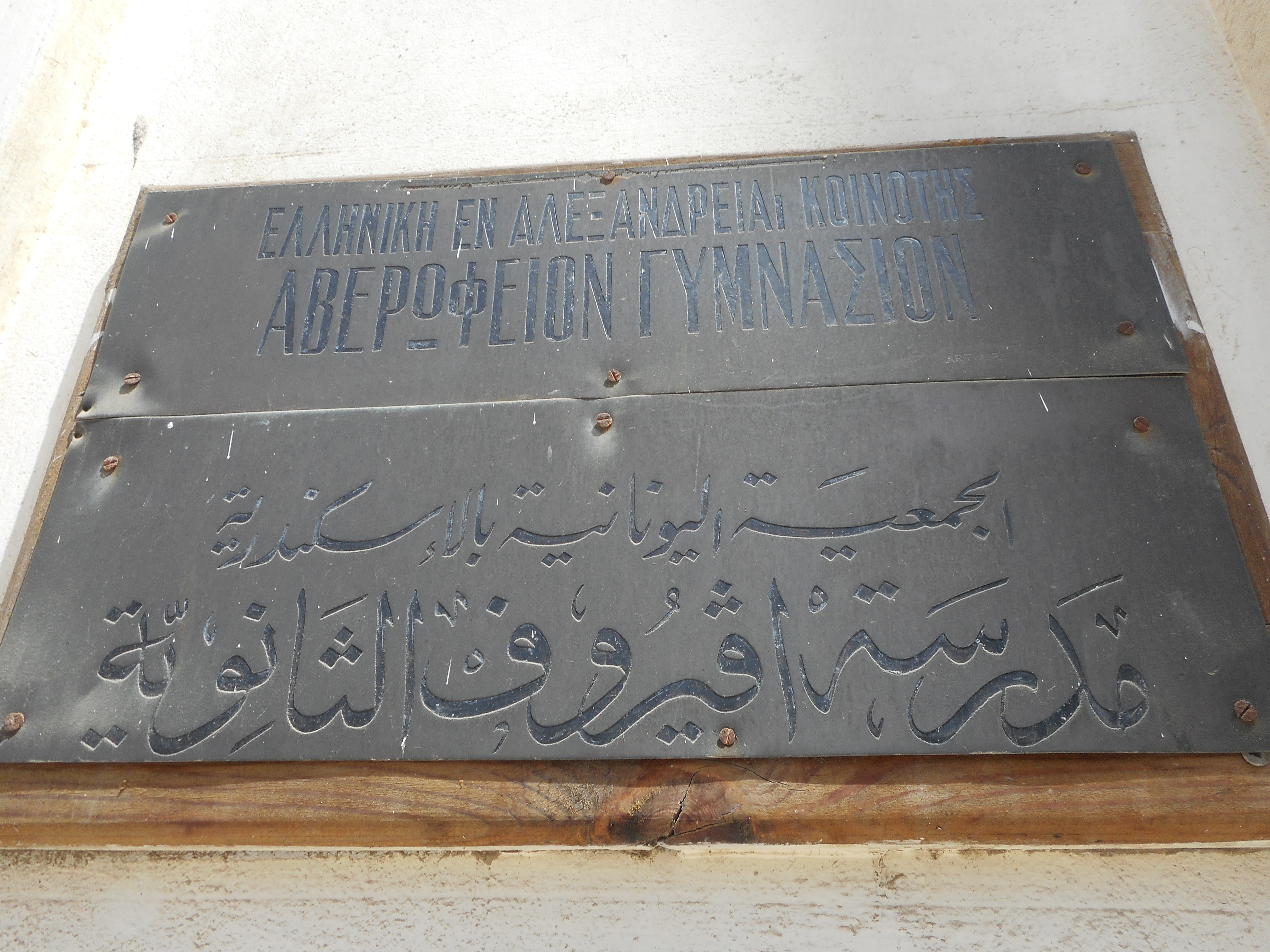 Greek Schools in Alexandria